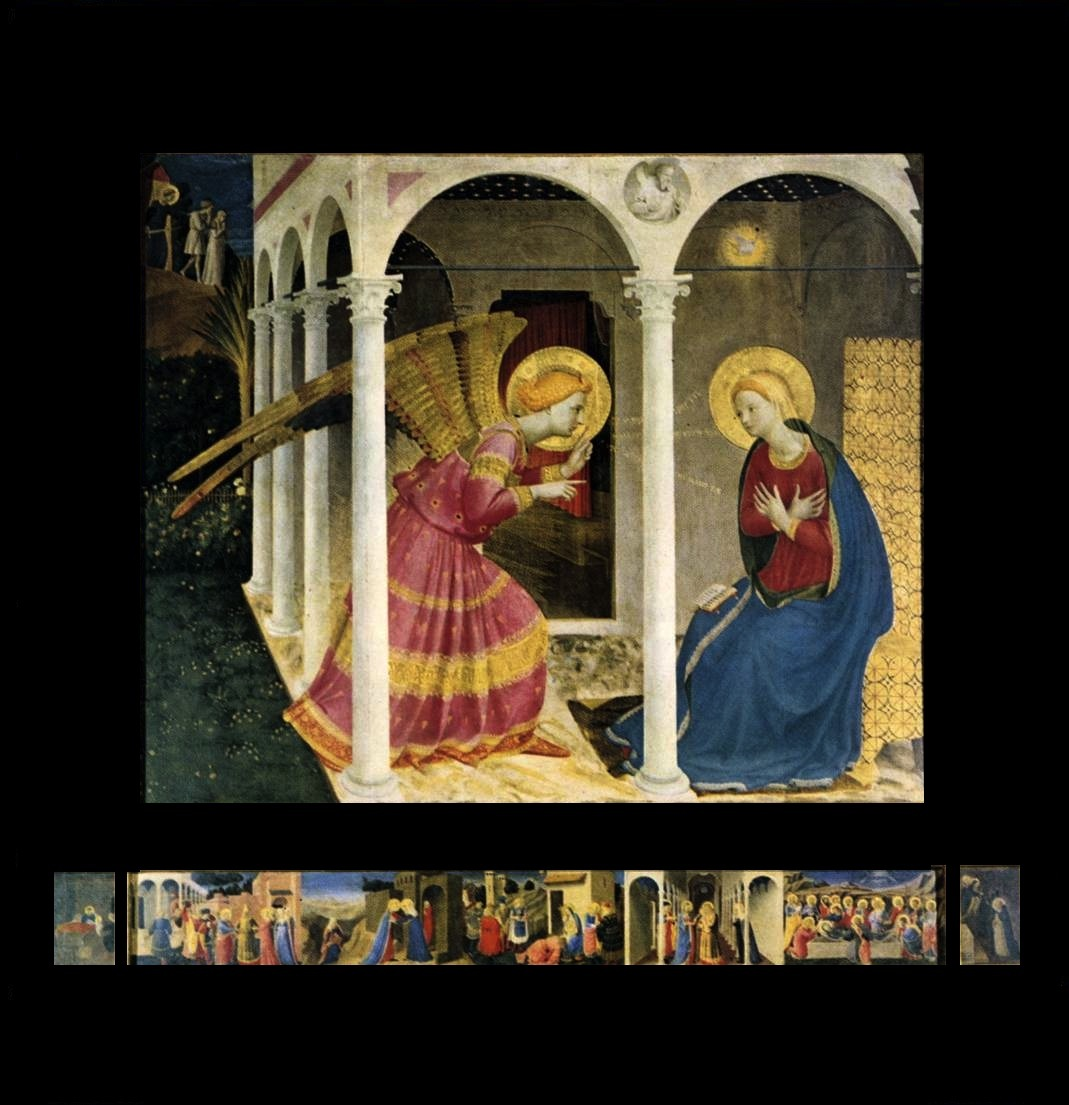 Predella: Birth of the Virgin